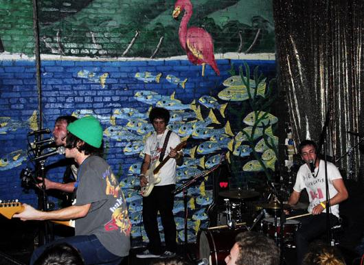 The Black Lips at the Flamingo Cantina, Austin Texas, SXSW 2007, March 15, 2007. More Black Lips photos.